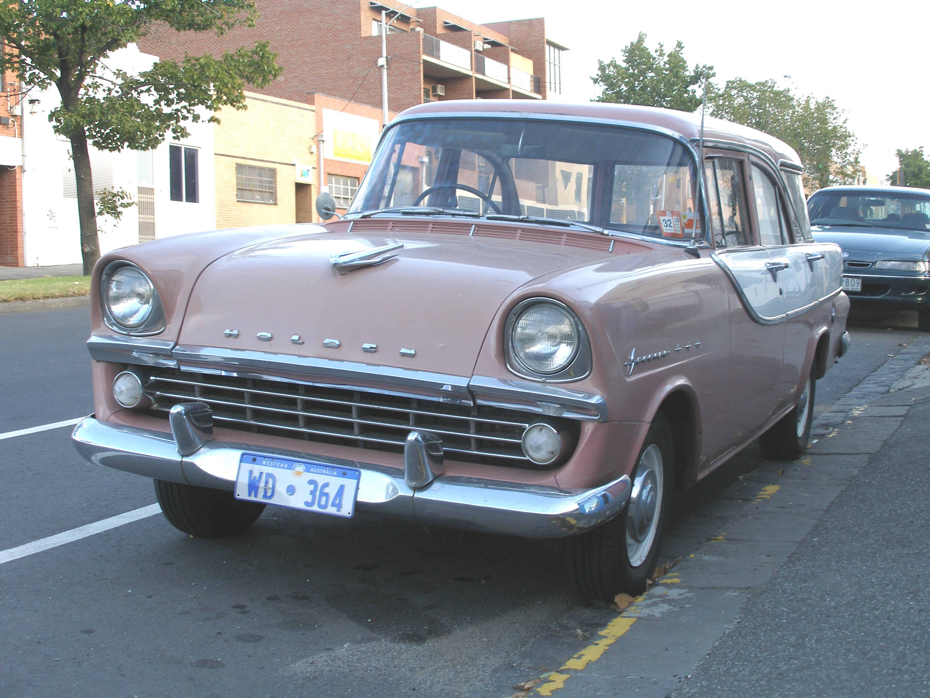 1960-1961 Holden FB Special Station Sedan, photographed in North Melbourne, Victoria, Australia.